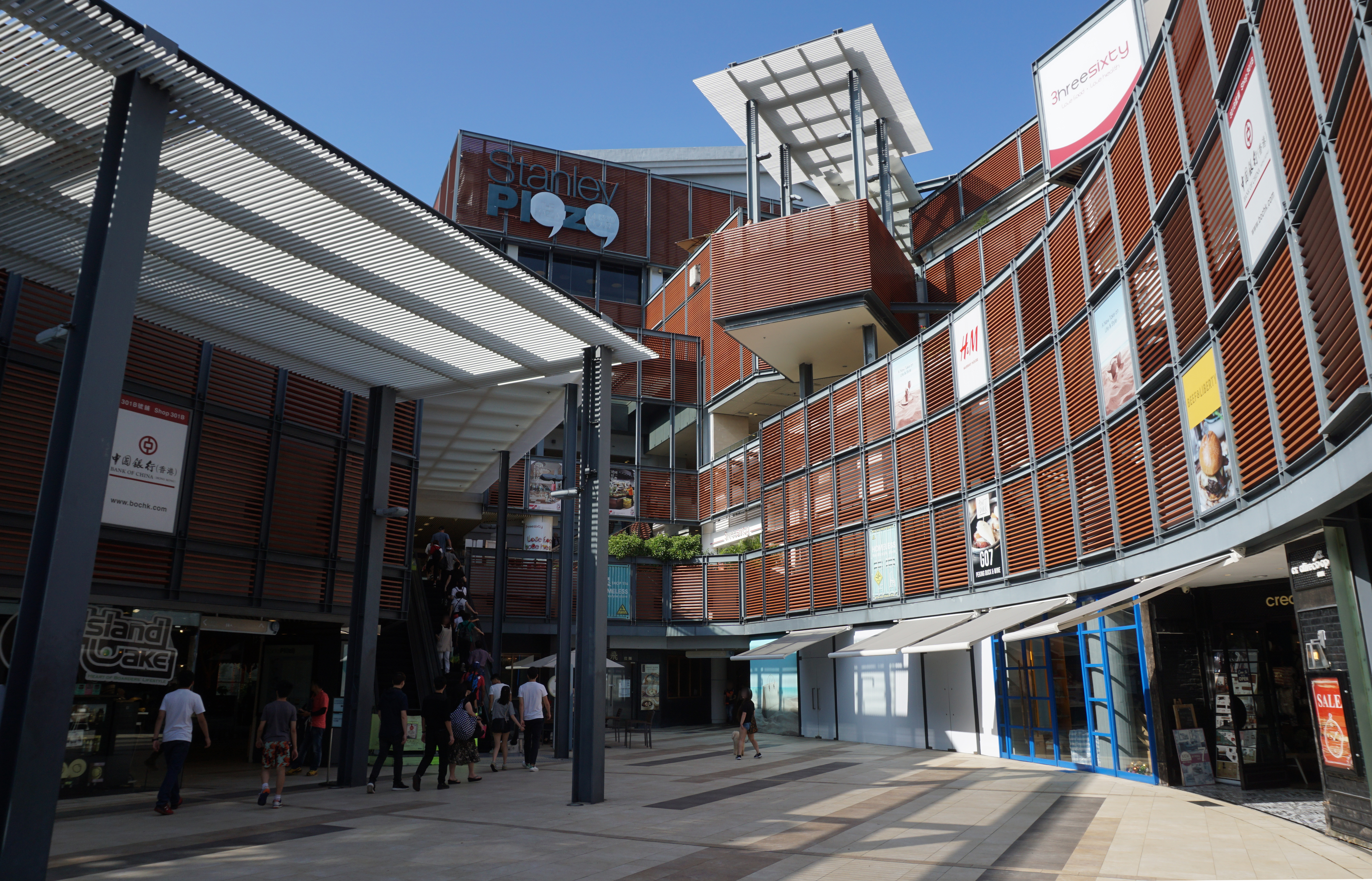 Plaza in Stanley, Hong Kong.